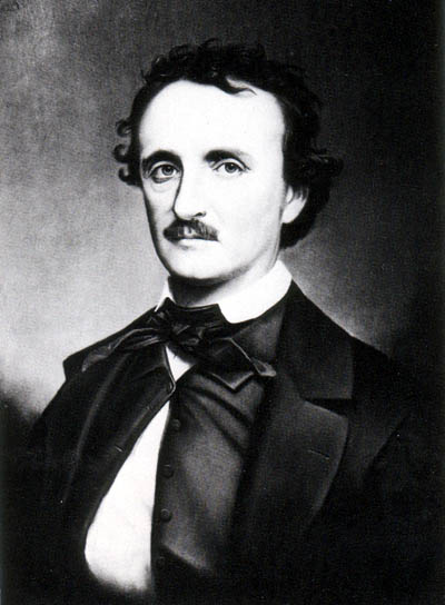 A copy photograph of the portrait painted by Oscar Halling in the late 1860's of Edgar Allan Poe. Halling used the "Thompson" daguerreotype, one of the last portraits taken of Poe in 1849, as a model for this painting.